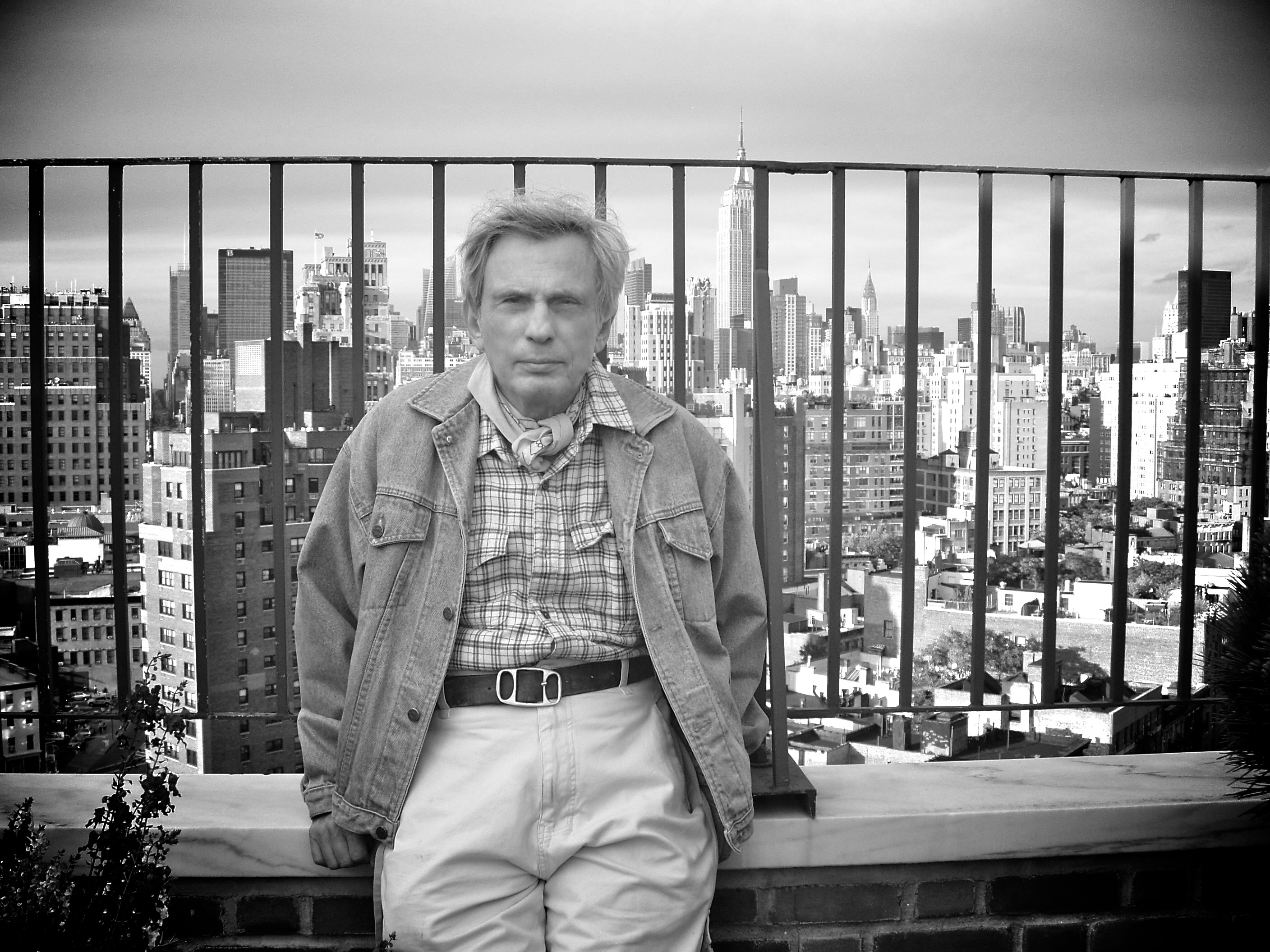 Jerome Charyn, Black and White